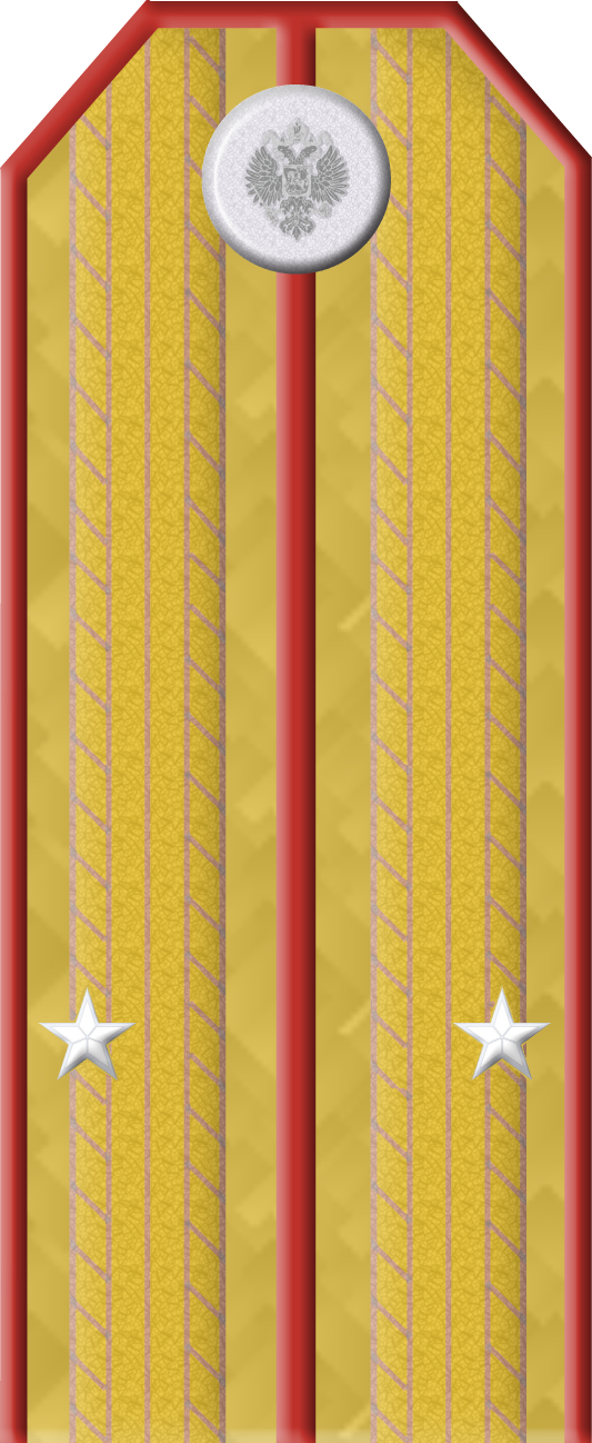 Rank insignia of the Imperial Russian Army, here "Junior poruchik" – shoulder strap. Particularity: Cavalry “Cornet“, Cossack Army “Chorunshij”.